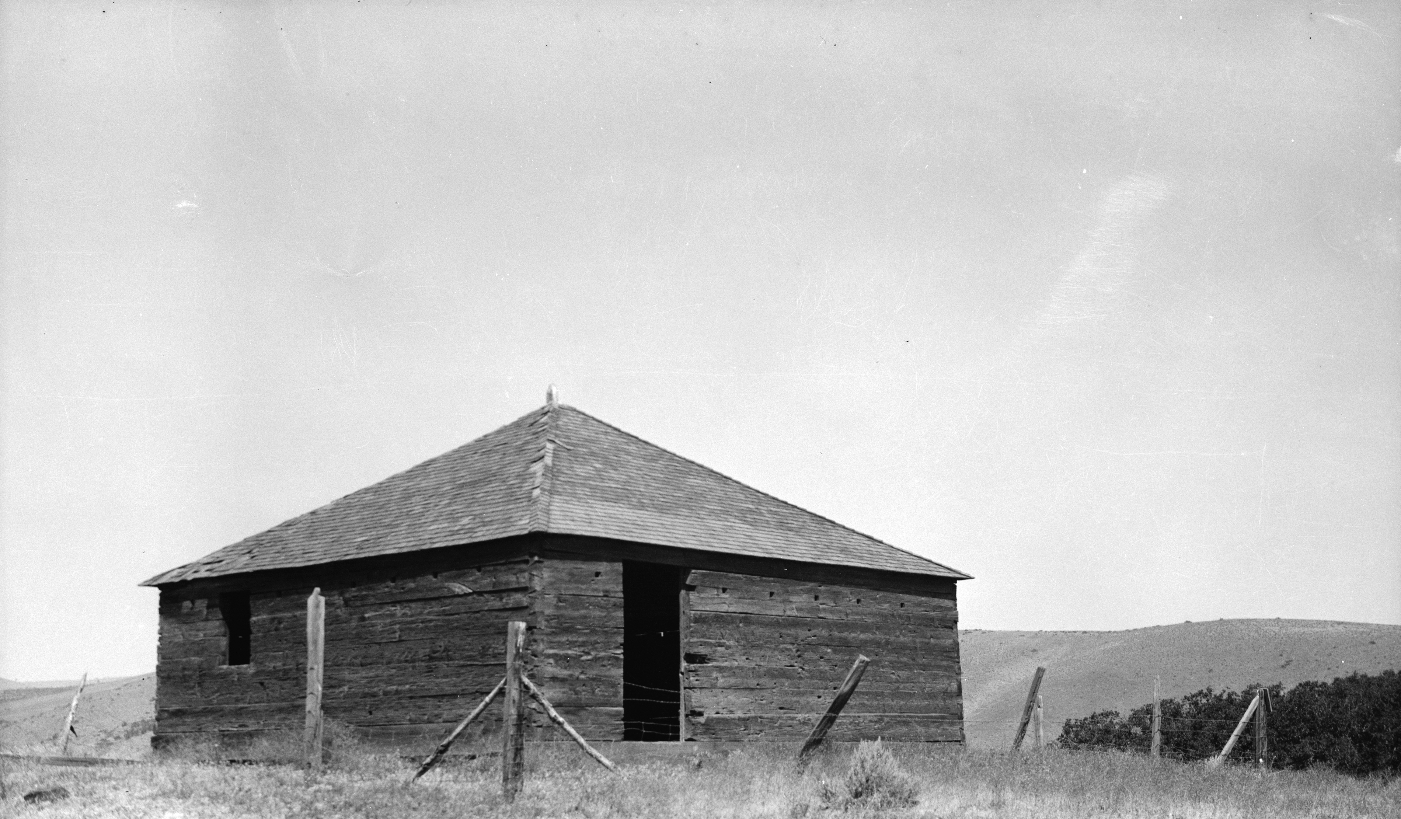 Blockhouse at Fort Simcoe, outside of White Swan in Yakima County, Washington. The blockhouse/jail was built by the US Army around 1858 in the Washington Territory.